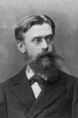 photography of German palaeontologist Melchior Neumayr (1845-1890)